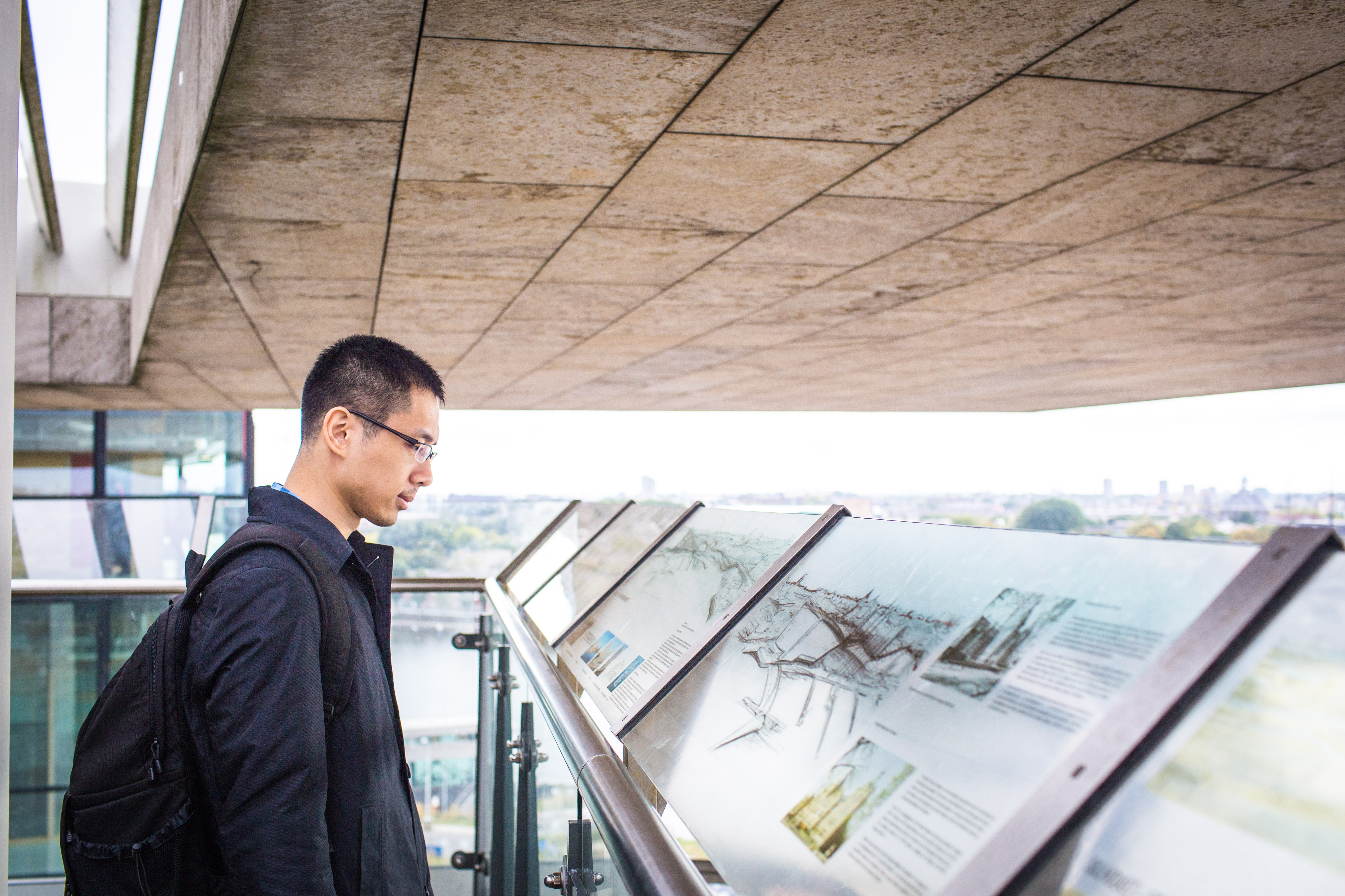 The topmost floor has a small cafe and a balcony overlooking the city